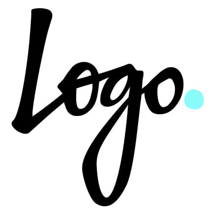 This is the Logo of the station of Logo TV since March 2, 2015